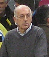 Germany, Bonn, Telekom-Dome: Bernhard "Bernd" Cullmann (former Bundesliga soccer player) during a tournament of traditional teams.